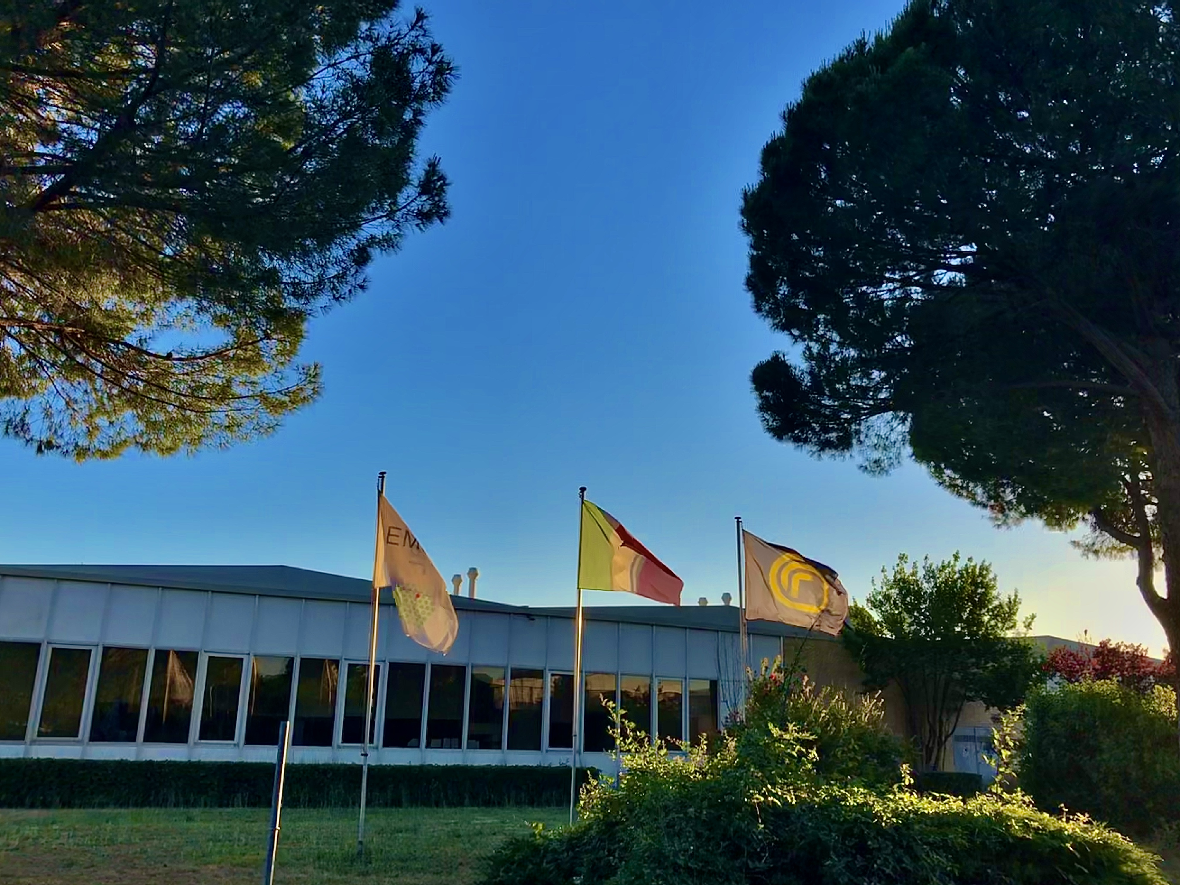 This is the EMBL Rome building, a prestigious institute with research focused on Epigenetics and Neurobiology. It is one of six outstations of the European Molecular Biology Laboratory.